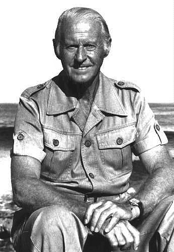 Portrait of Thor Heyerdahl, as a grown-up explorer.